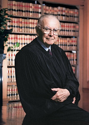 A more current and color photo of the late Justice Brennan